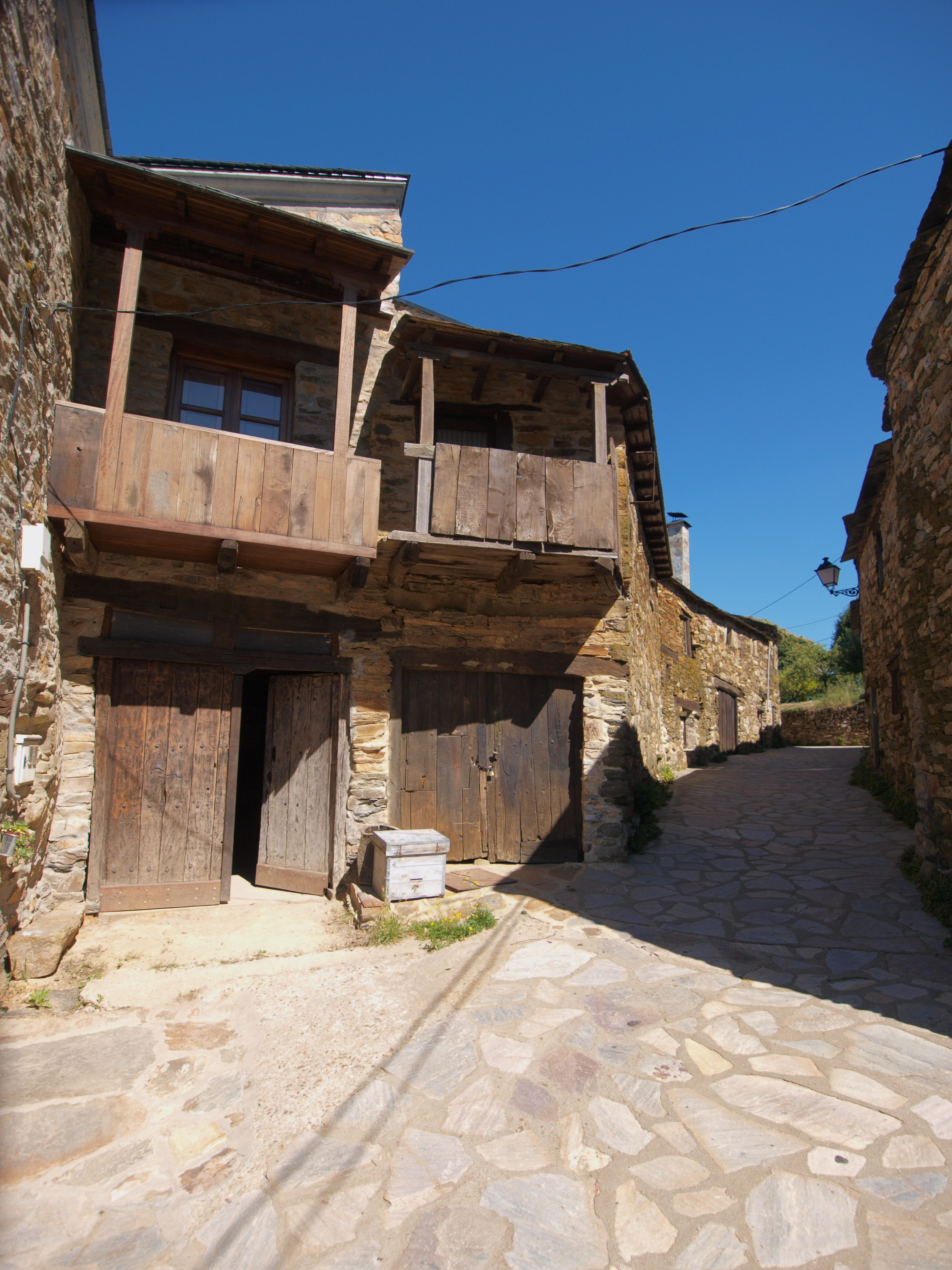 Street in the spanish village of Santa Cruz de los Cuérragos (province of Zamora)